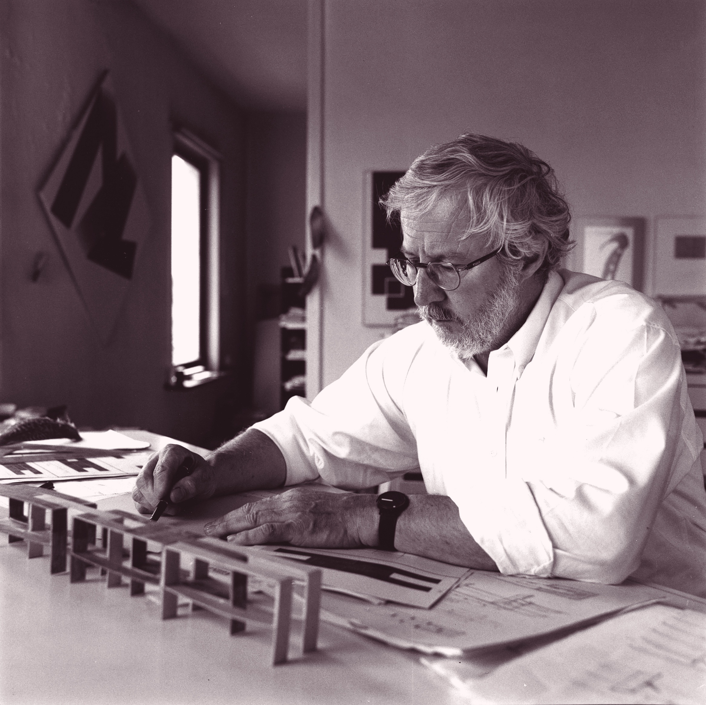 Furniture designer André Verroken working at his desk in his bureau in Ghent (Belgium) in 2005.